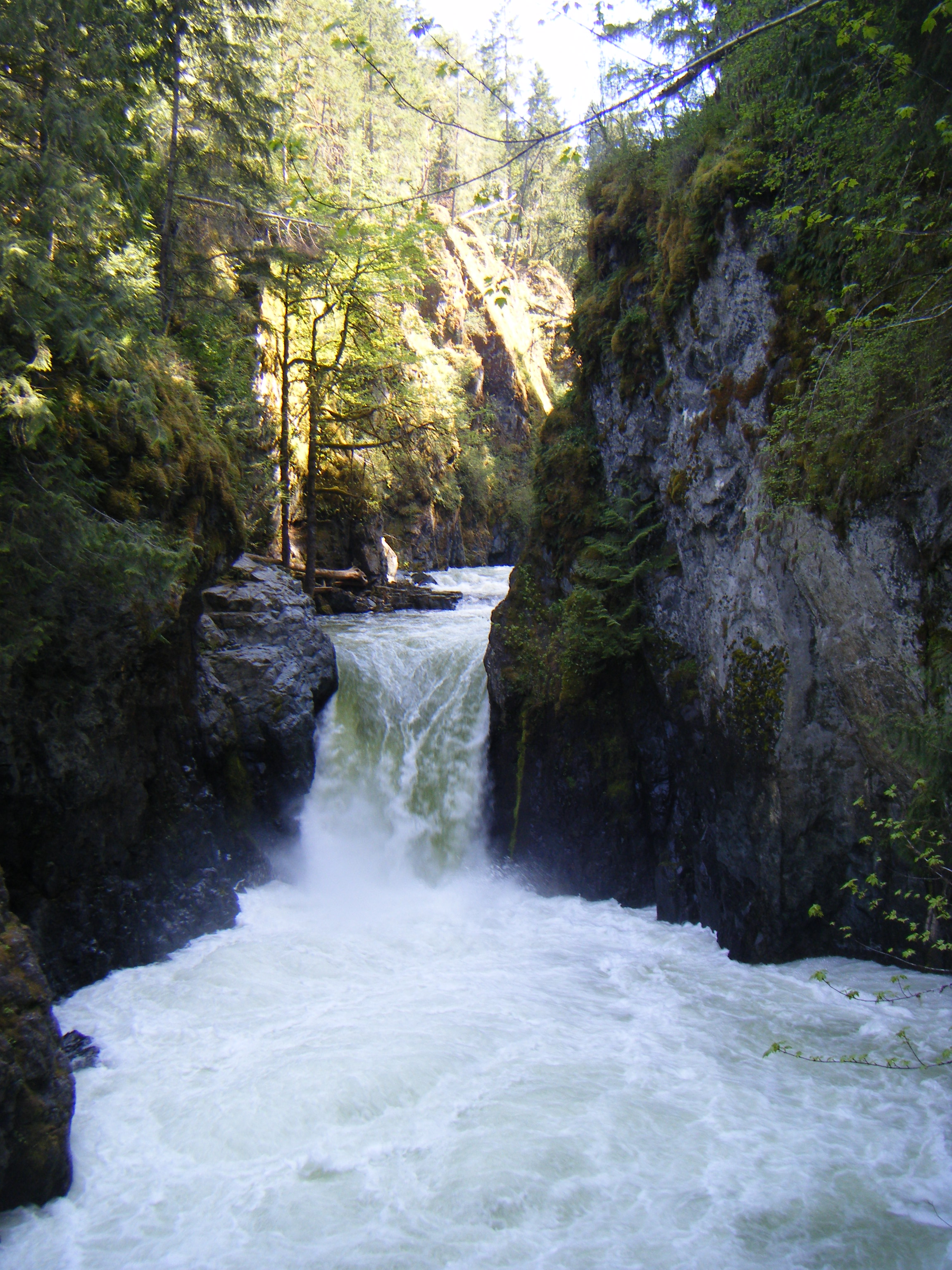 Englishman River Falls, near Errington, Vancouver Island, British Columbia in the BC Provincial Park of the same name.